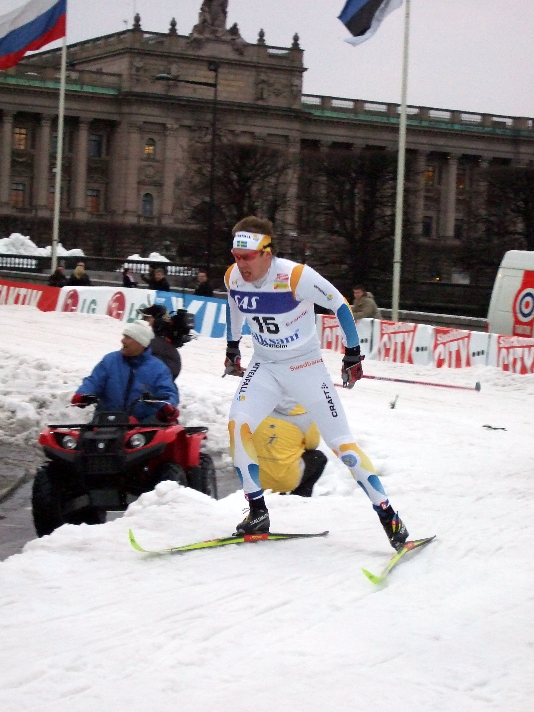 Emil Jönsson at the Royal Castle World Cup sprint in Stockholm, Sweden